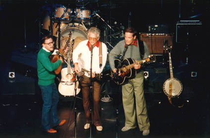 A shot from the audience of the original Kingston Trio (l-r) Nick Reynolds, Bob Shane, Dave Guard on the occasion of a 20-year reunion concert named "The Kingston Trio and Friends Reunion" at the Showcase Theatre at the Magic Mountain Park, Valencia, CA